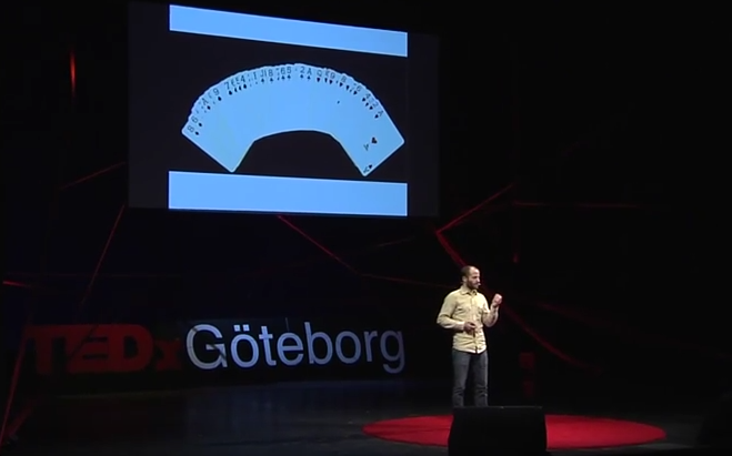 Idriz Zogaj under TedxGöteborg